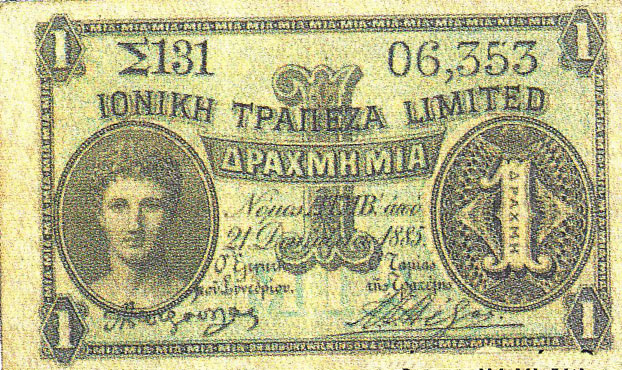 1 Ionian drachma, 1885, type a, front view